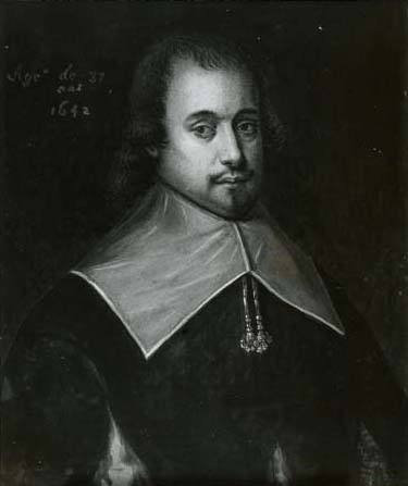 Portrait of Charles de Menou, Sieur d'Aulnay et de Charnisay